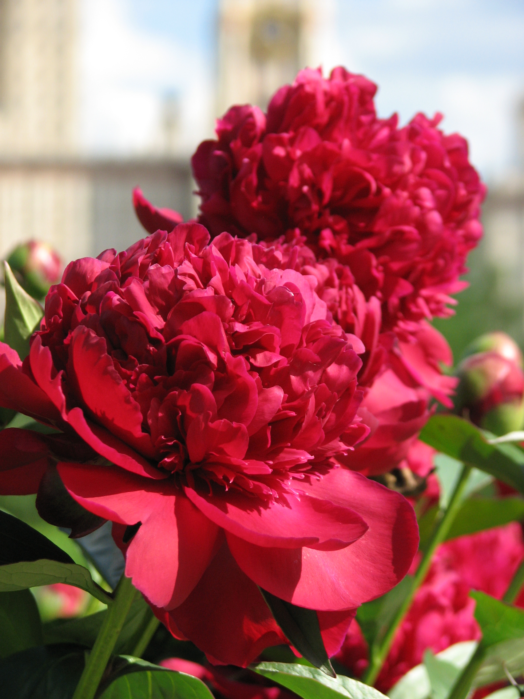 Paeonia lactiflora 'Ruth Clay'. From the collection of the Botanical Garden of Moscow State University (main area on the Sparrow Hills).